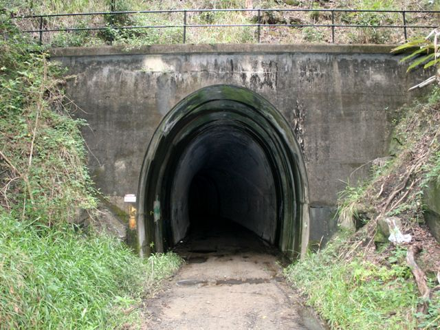 Dularcha Railway Tunnel from North (2009)